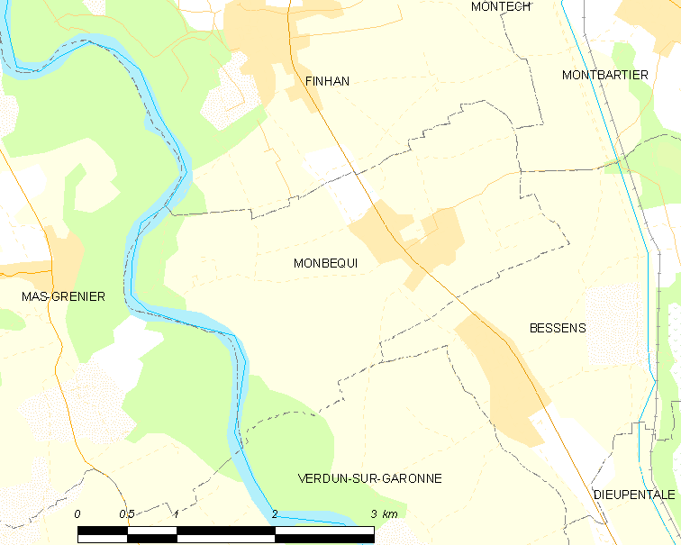 Map of French municipality Monbéqui